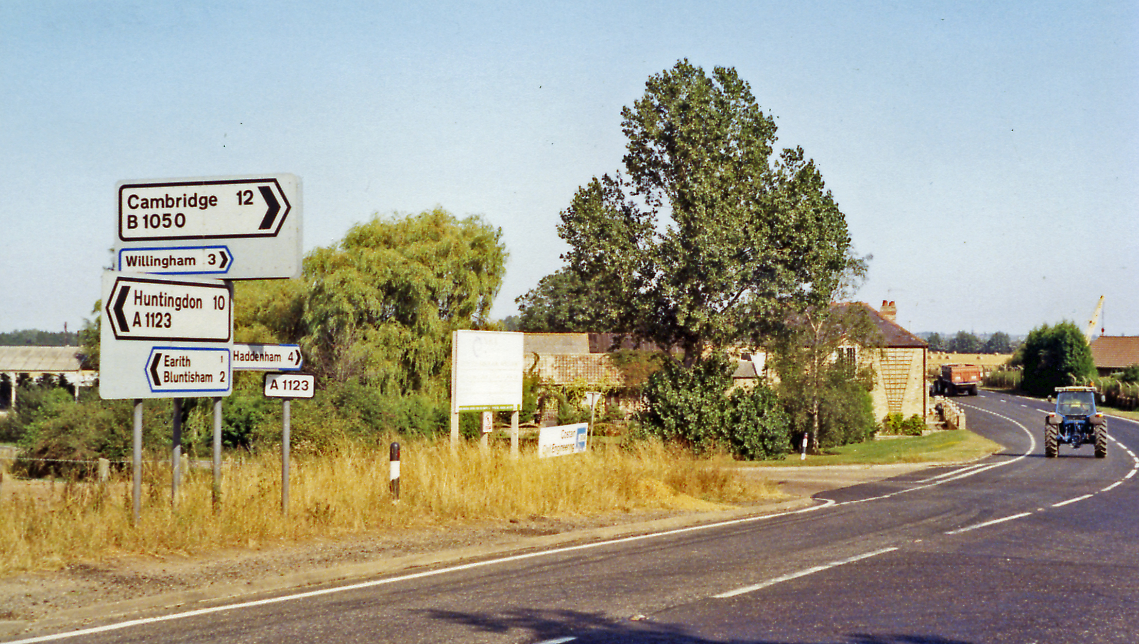 North-east view on A1123 Huntingdon - Ely road at Earith Bridge and site of former station, 1991. View NE, towards Ely. Earith Bridge is at the southern end of the New Bedford River (Hundred-Foot Drain). With a station here, an ex-GER branch used to run beside it St Ives - Ely, until closed from 6/10/58, passenger services having ceased back on 2/2/31.